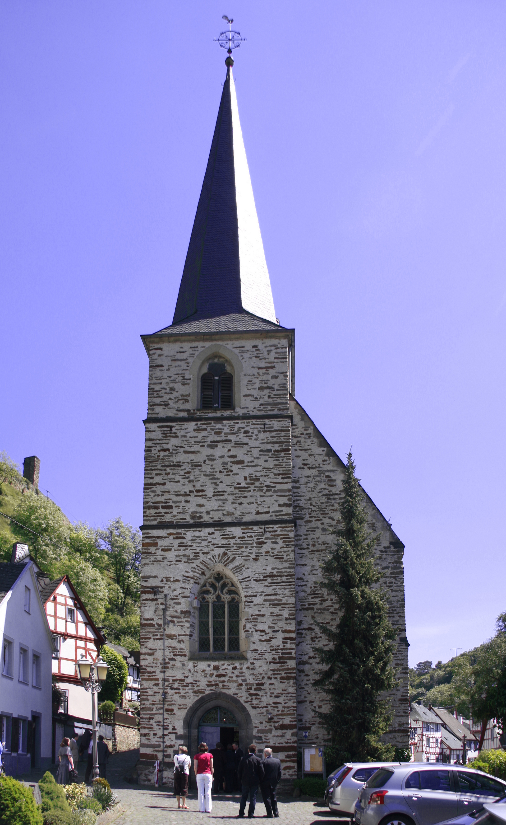 Church Feast of the Cross in Monreal, belltower and entrance